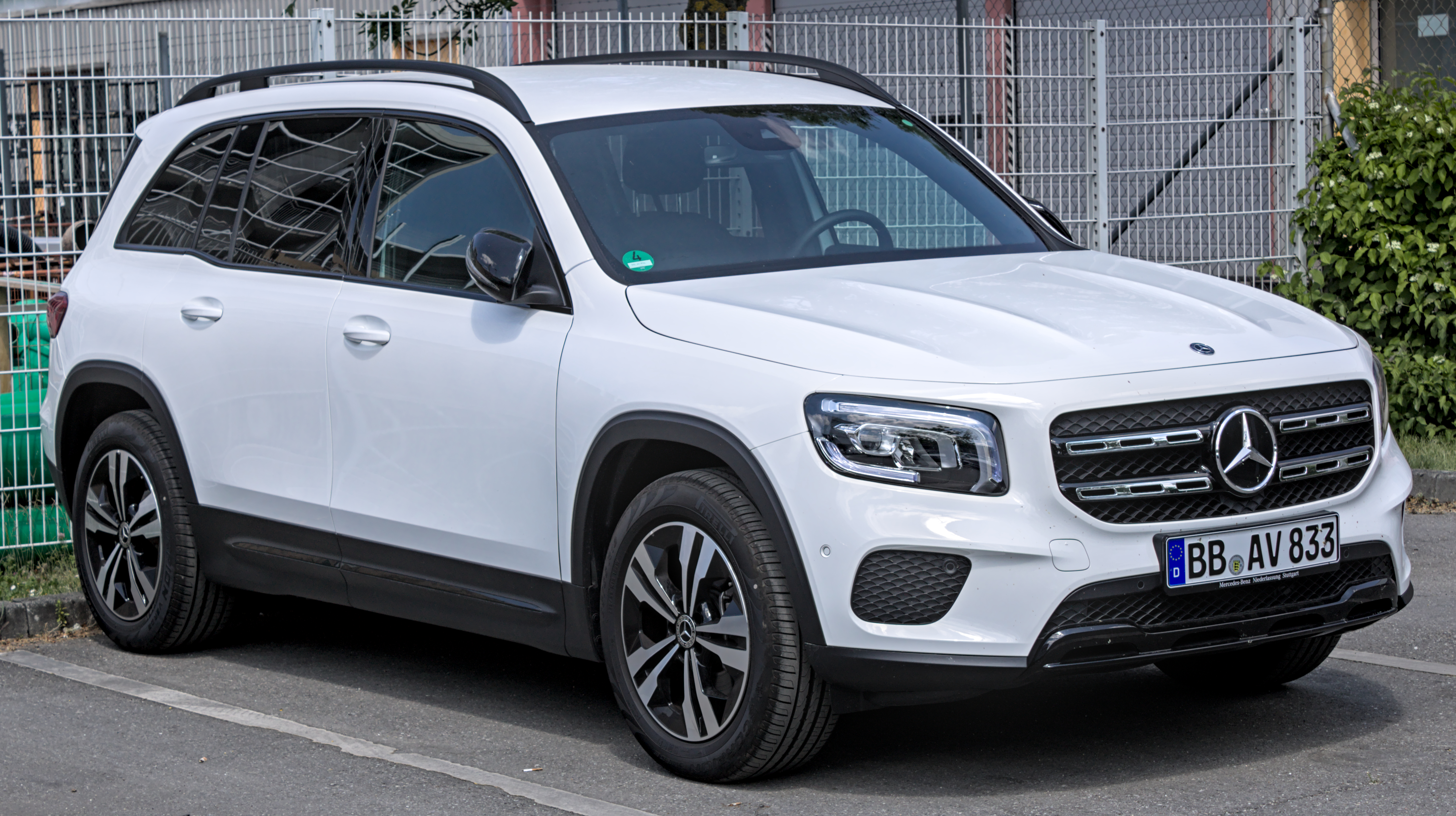 Mercedes-Benz_X247 in Böblingen